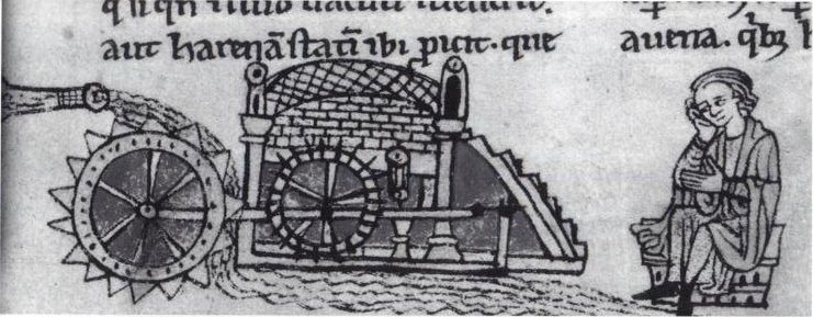 Mill with overshoot wheel. British Library, Cotton Manuscript Cleopatra C XI, fol 10.